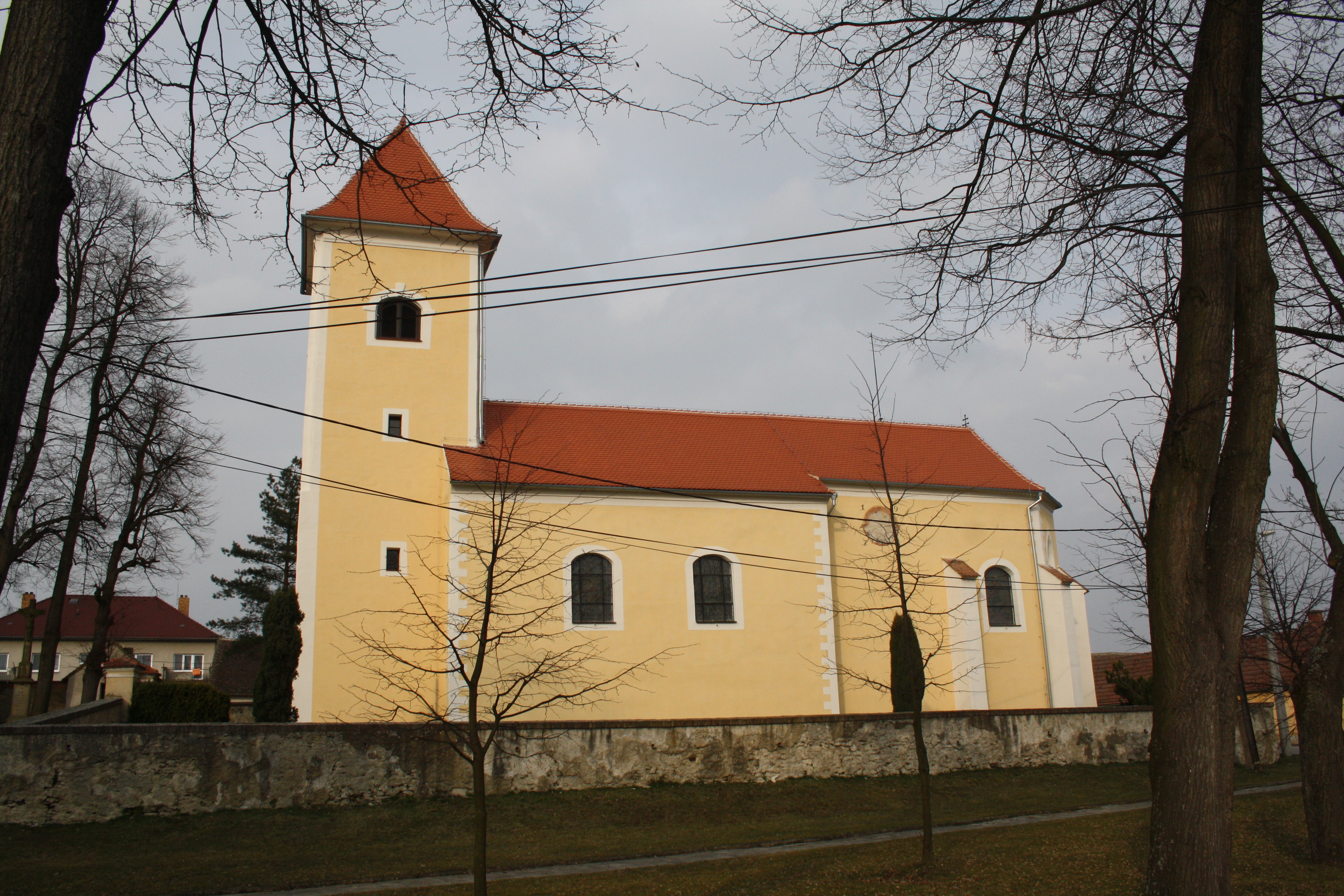 Sideview of Church of Saint John the Baptist in Lipník.